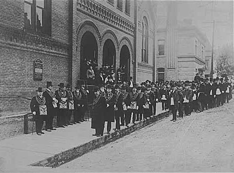 Located at 7th Ave. southeast corner Spring St. Caption on image: Peiser 305. 4/30/05 . Handwritten on verso: Funeral of Rev. Daniel Bagley, Masonic at First Presbyterian Church . Peiser 305 Subjects (LCTGM): Bagley, Daniel, 1818-1905--Death & burial--Washington (State)--Seattle; Funeral rites & ceremonies--Washington (State)--Seattle; First Presbyterian Church (Seattle, Wash.); Presbyterian churches--Washington (State)--Seattle Despite what the University of Washington Library says, 7th and Spring is wrong. The church at that location didn't open until 1908, and didn't look like this. This is their older church at 4th and Spring, constructed 1894.